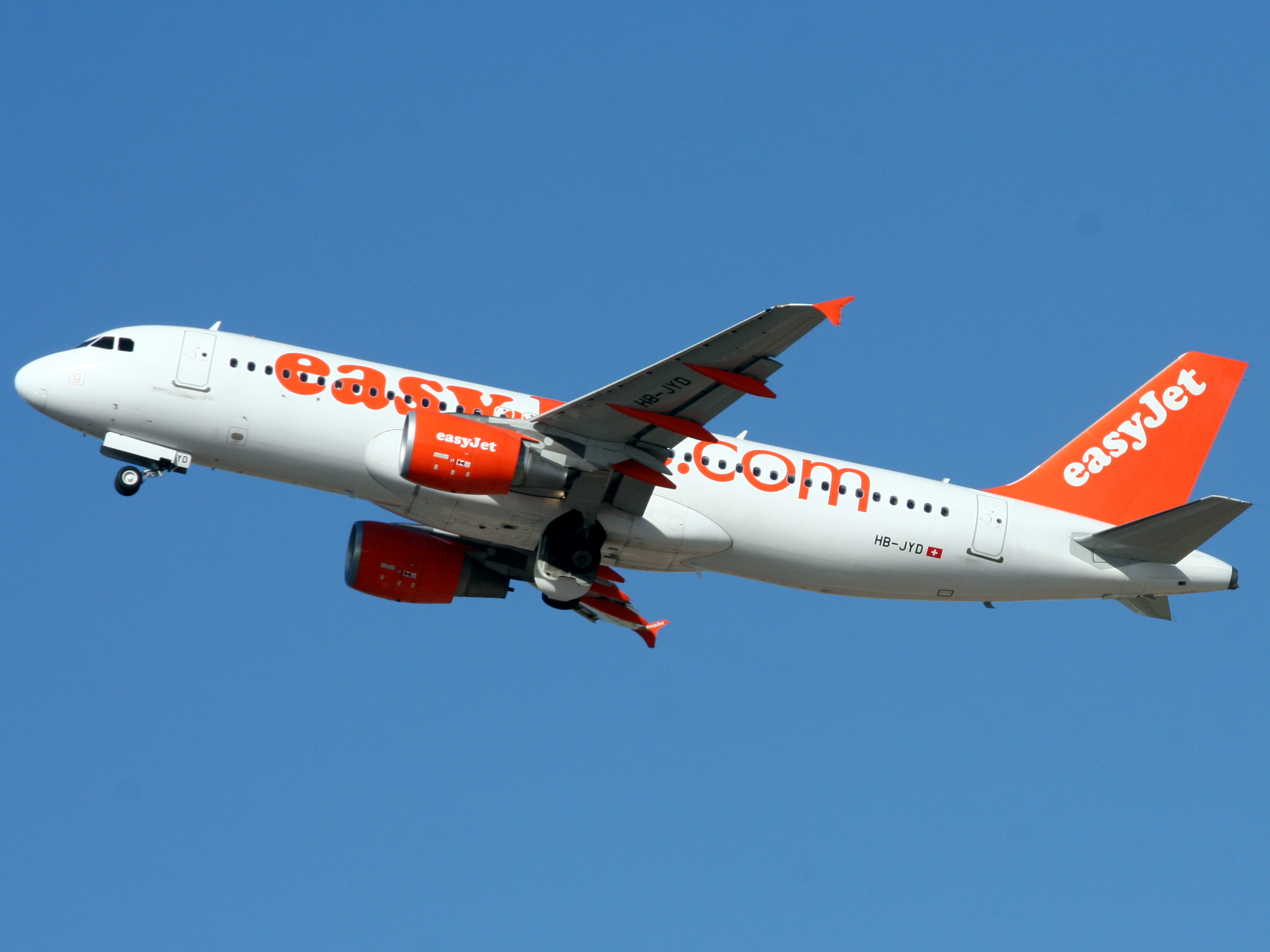 At Ben Gurion International airport